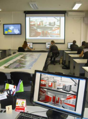 Technological college №14 - Laboratory of an advertizing product